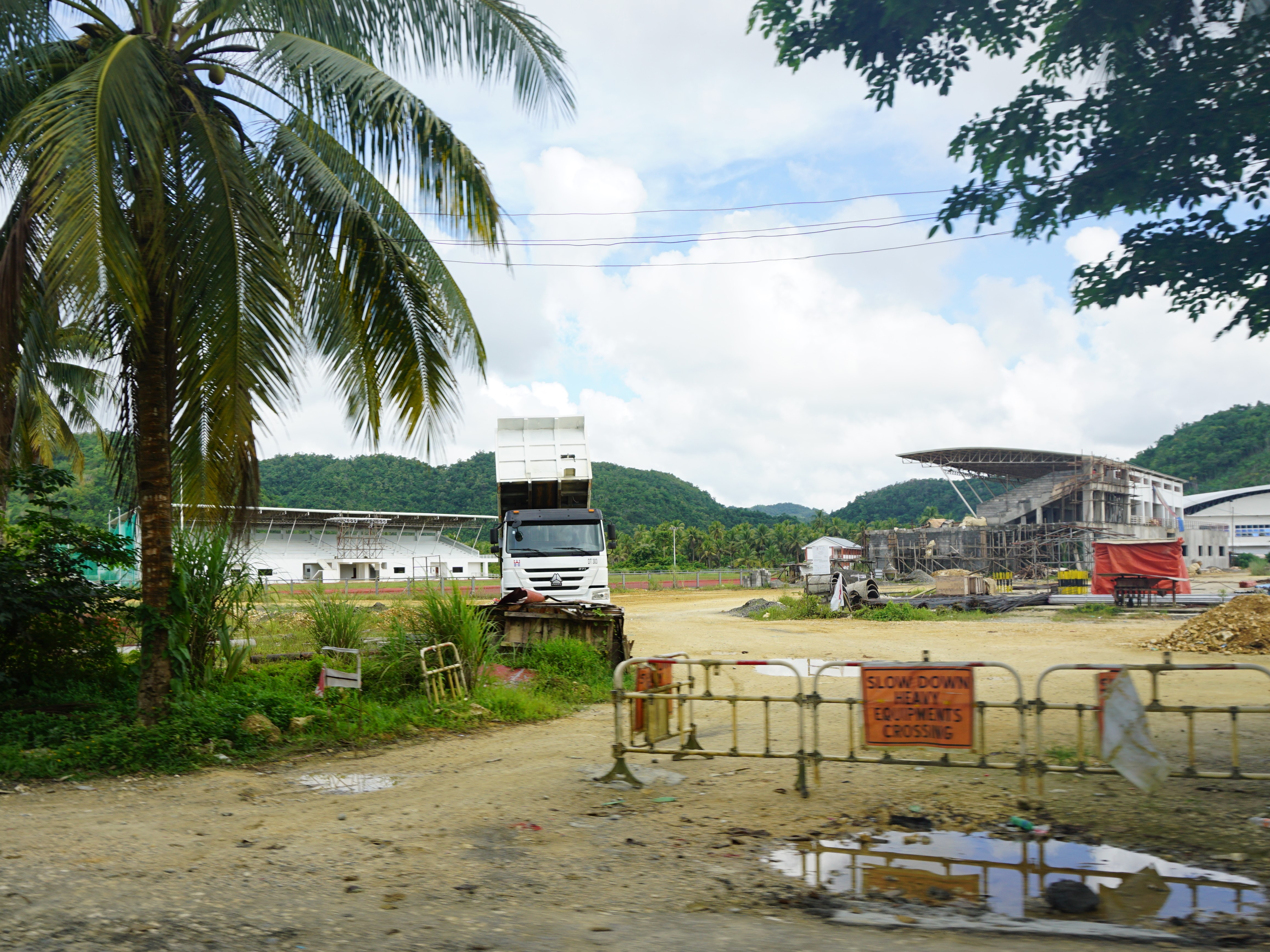 Siargao Sports Complex under construction located in Dapa, Surigao del Norte.